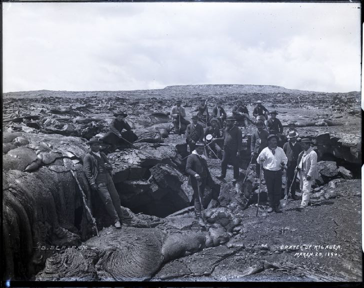 Title: Crater of Kilauea Creator: Brother Bertram Subjects: Kilauea ; Lava Formations ; People ; Volcanoes Island: Hawaii Island Location: Kilauea, HI